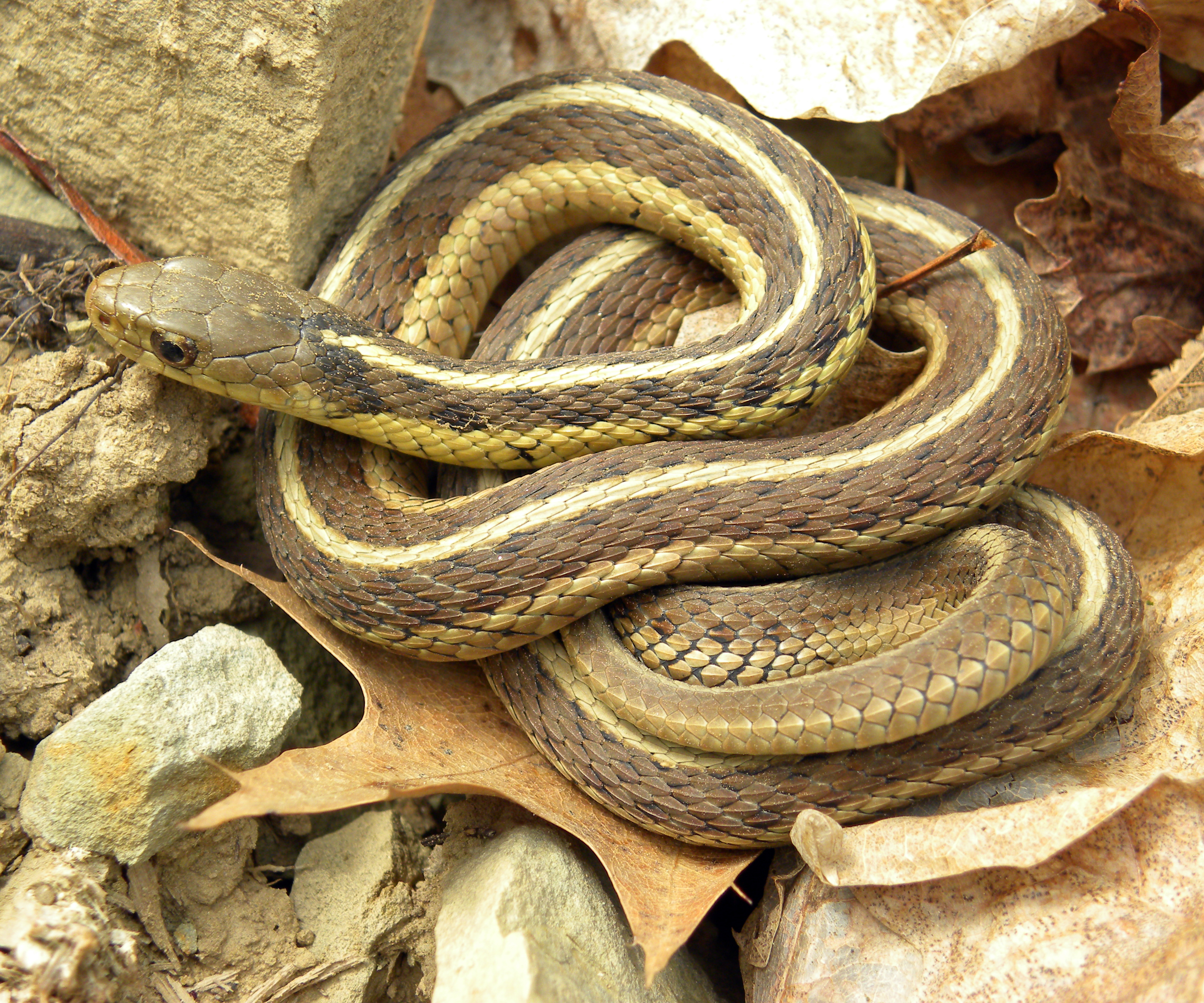 Thamnophis sirtalis sirtalis (Eastern Garter Snake) in Spangler Park, Wooster, Ohio.